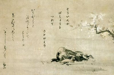 Saikaku: Nishiyama Sōin Cherry Poem (illustration)